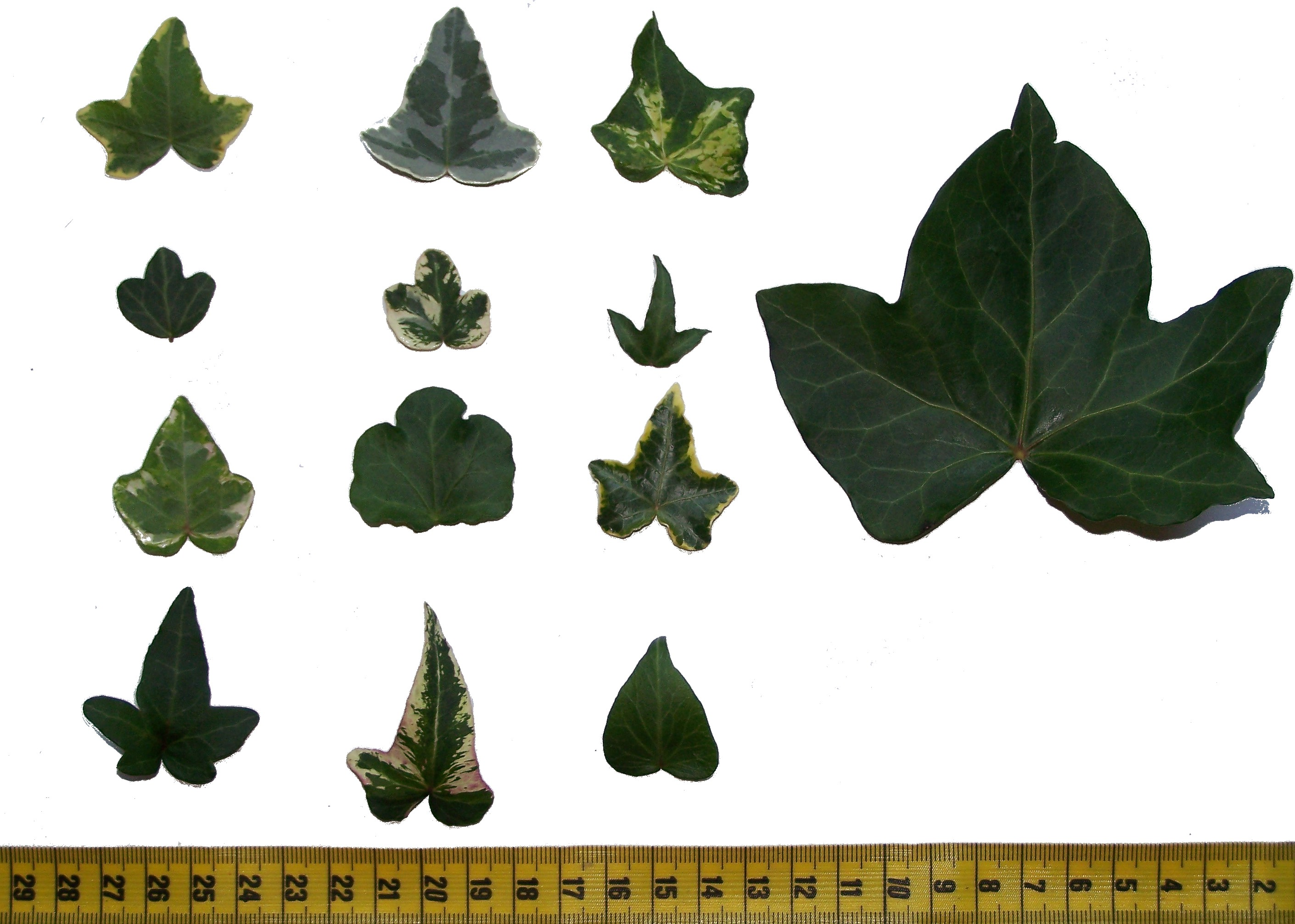 A variety of small-leaved Hedera helix cultivars. To the right, a leaf of the species.